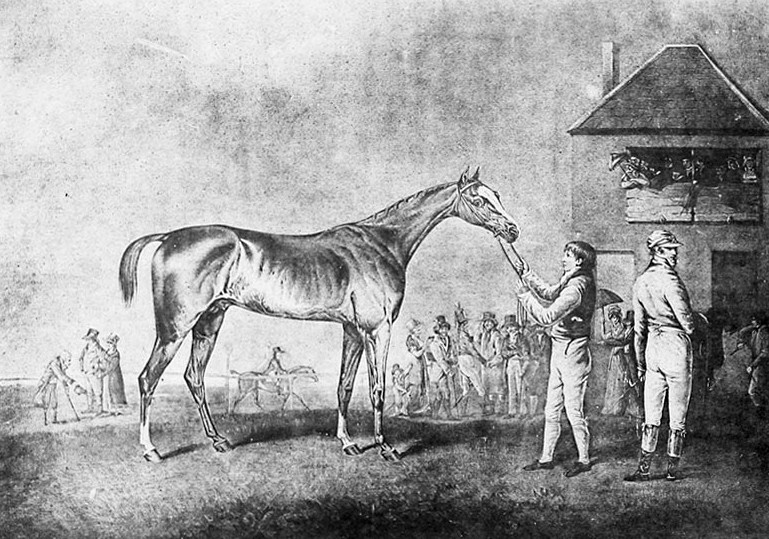 Engraving of the British racehorse Quiz, ca. 1802. Artist dead for over 100 years.